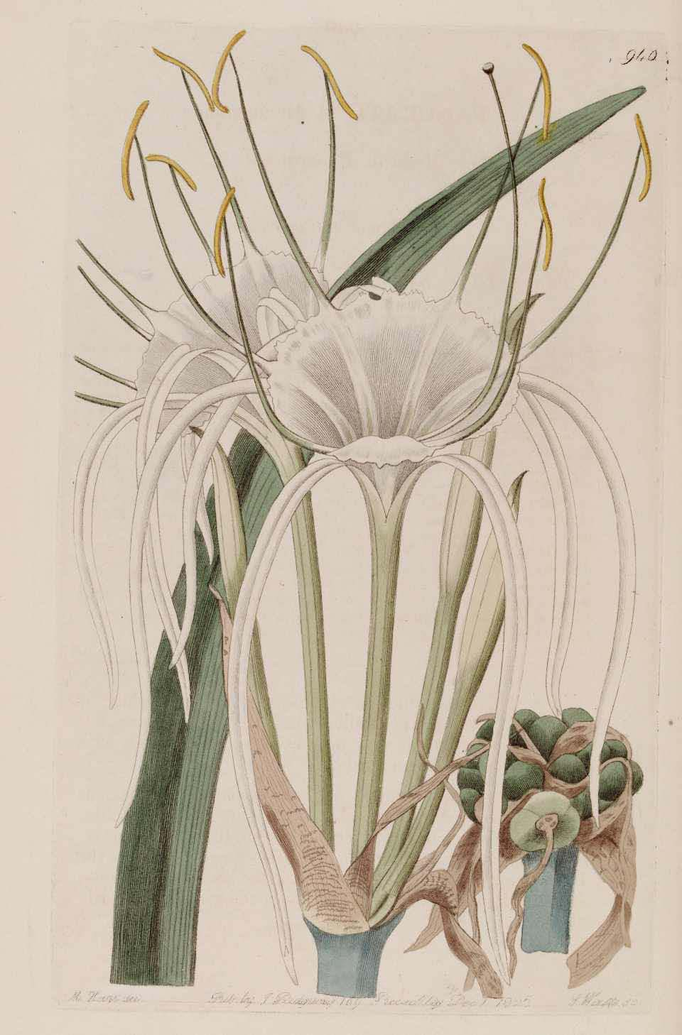 Hymenocallis harrisiana